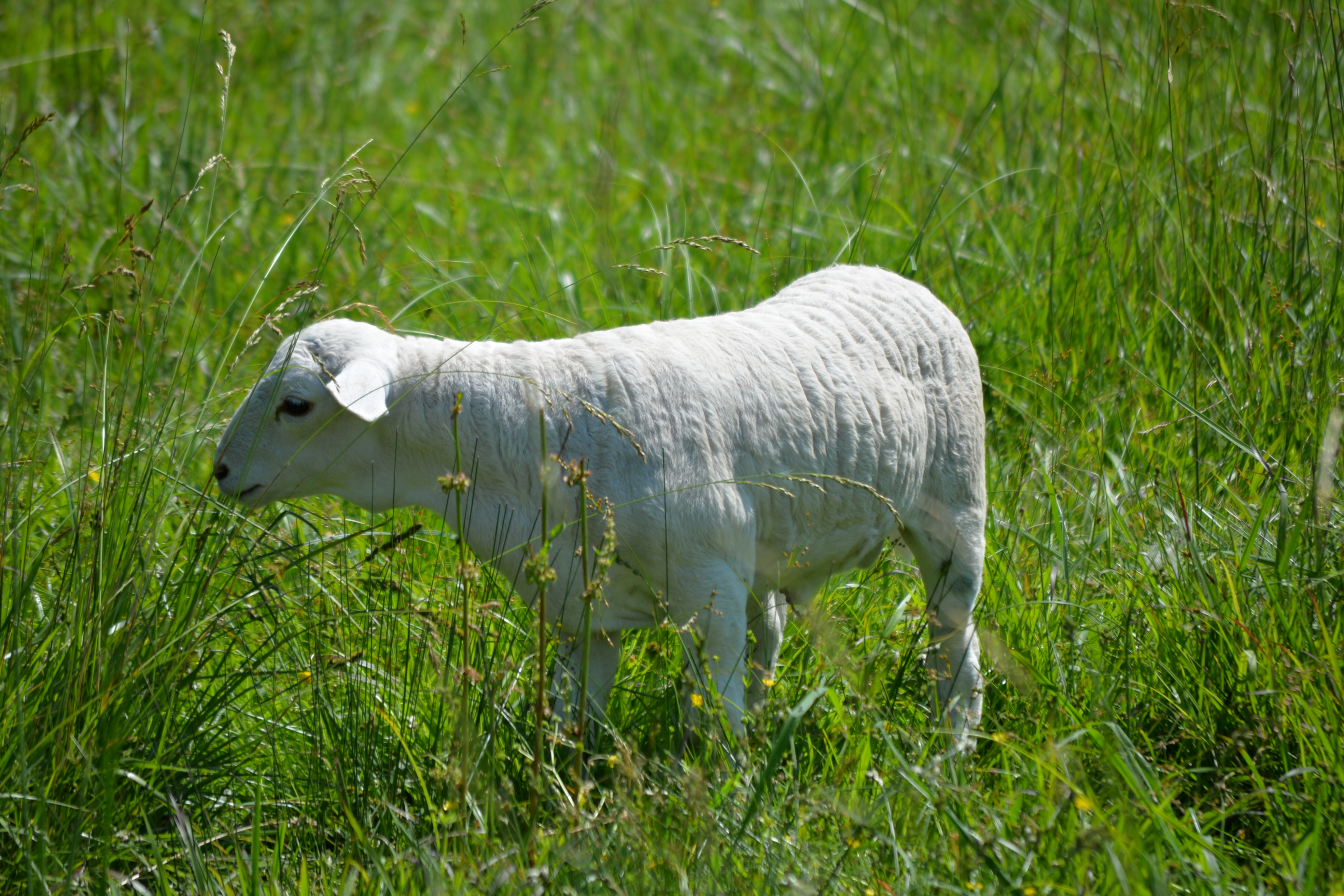 Australian White lamb 4 weeks old in the southeastern USA